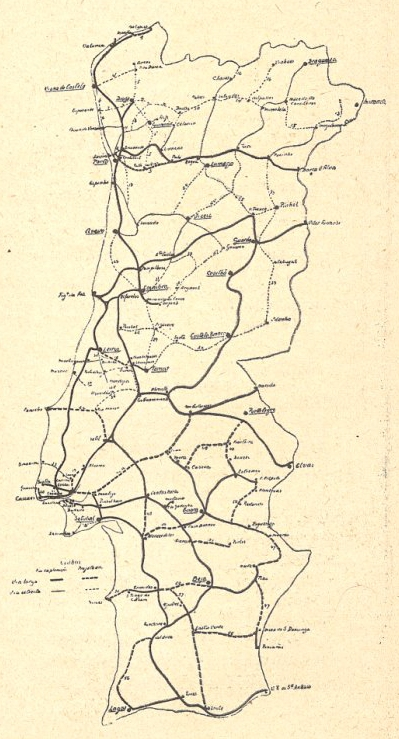 Map with the railway network in Portugal, and the projects introduced by the Plano Geral da Rede Ferroviária (General Plan of the Railway Network), published by the Decree No. 18:190, of the 28th March 1930. This image was published on the Gazeta dos Caminhos de Ferro magazine no. 1167, of the 1st August 1936, and scanned by the Hemeroteca Municipal de Lisboa.